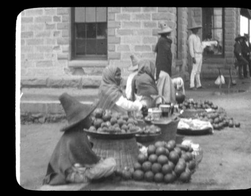 Fruit vendors, at La Barca train station